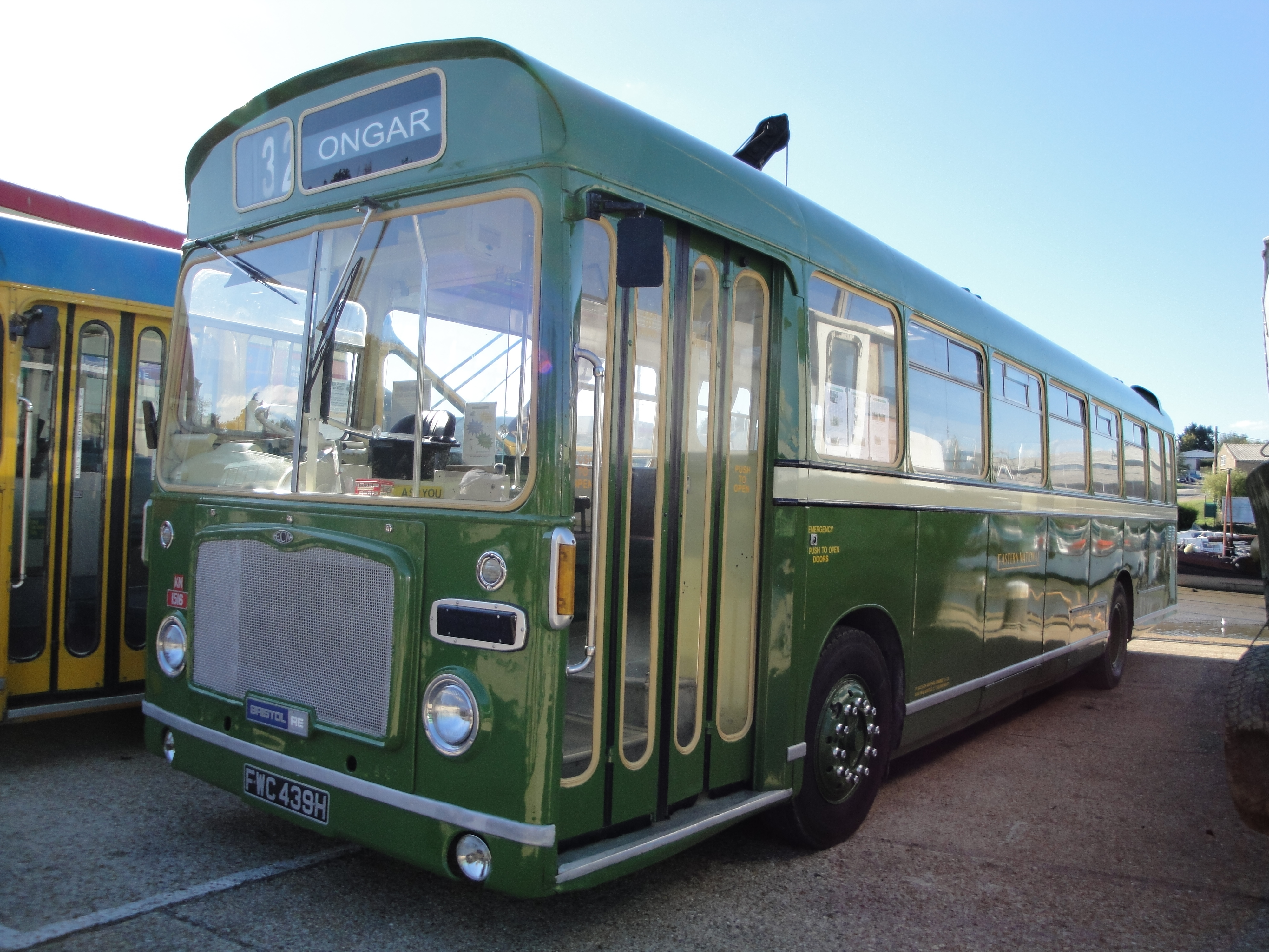 Eastern National 1516 (FWC 439H), a Bristol RE/ECW in Newport Quay, Isle of Wight for the Isle of Wight Bus Museum's October 2010 running day.